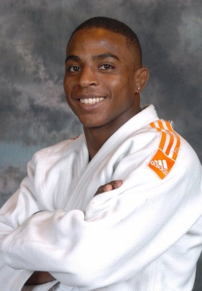 Loic korval picture